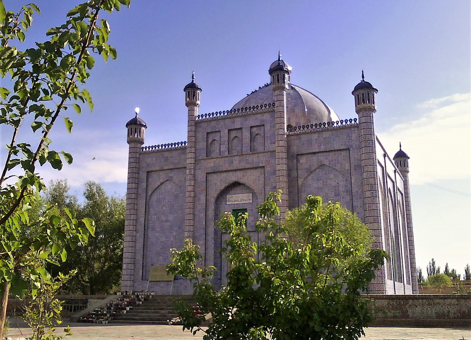 The tomb of Sultan Sutuq Bughra Khan